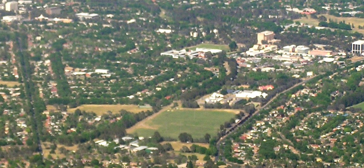 Aerial view of Dickson, Australian Capital Territory